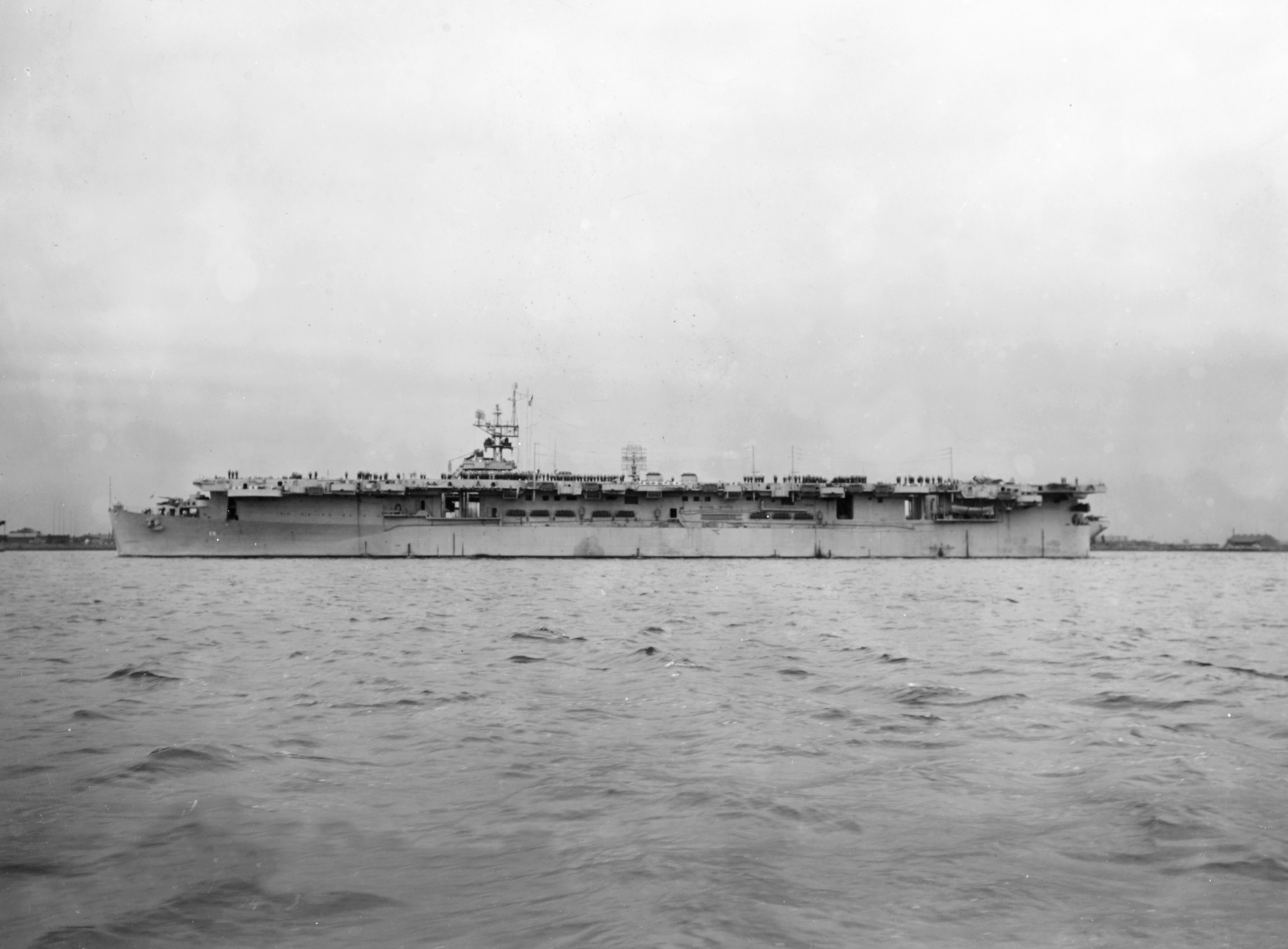 The U.S. Navy light aircraft carrier USS Cabot (CVL-28) off the Philadelphia Navy Yard, Pennsylvania (USA), on 27 August 1943.